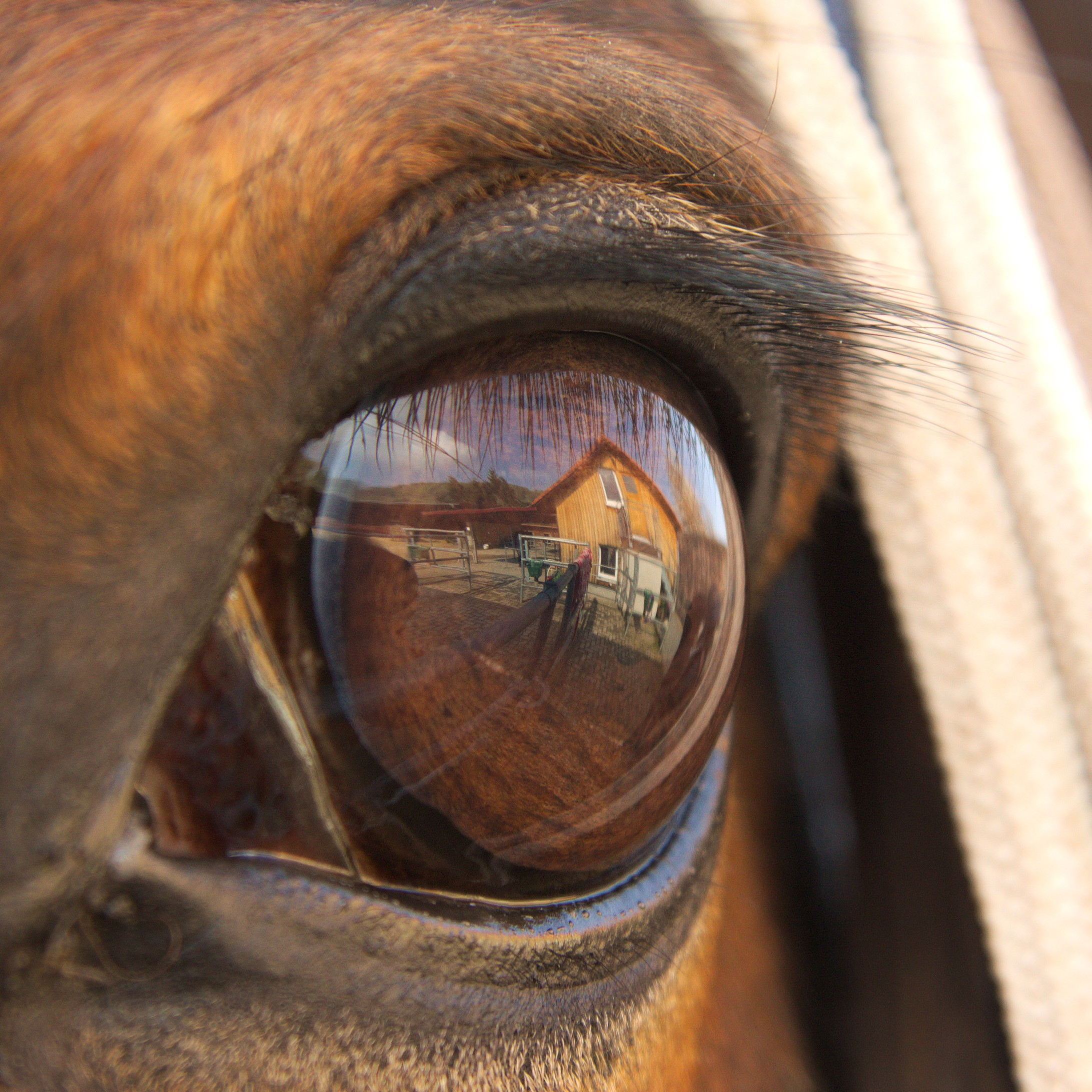 Horse eye Another perspective ... through the eye of a horse